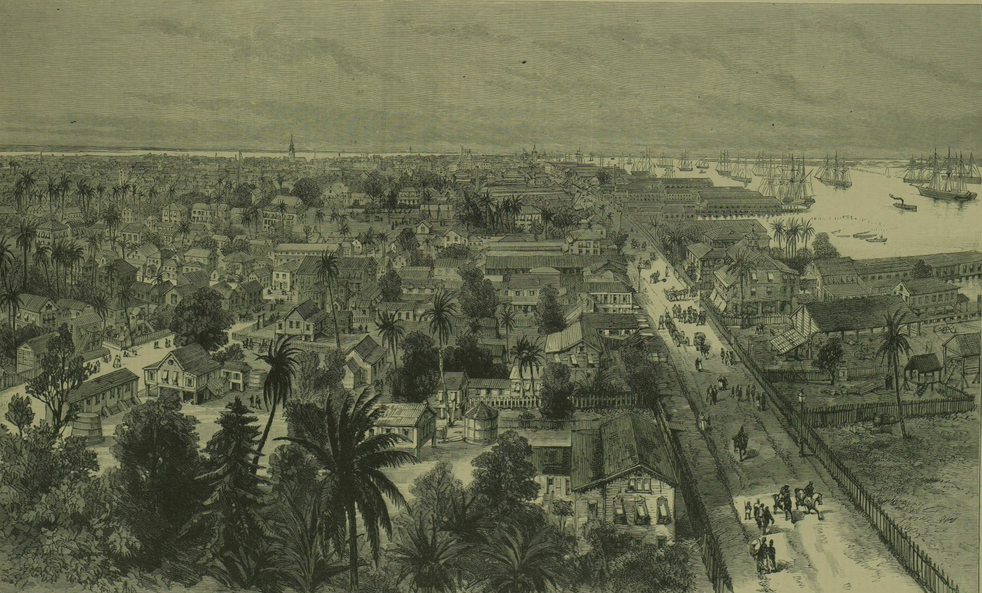 Illustration by Melton Prior from the lighthouse